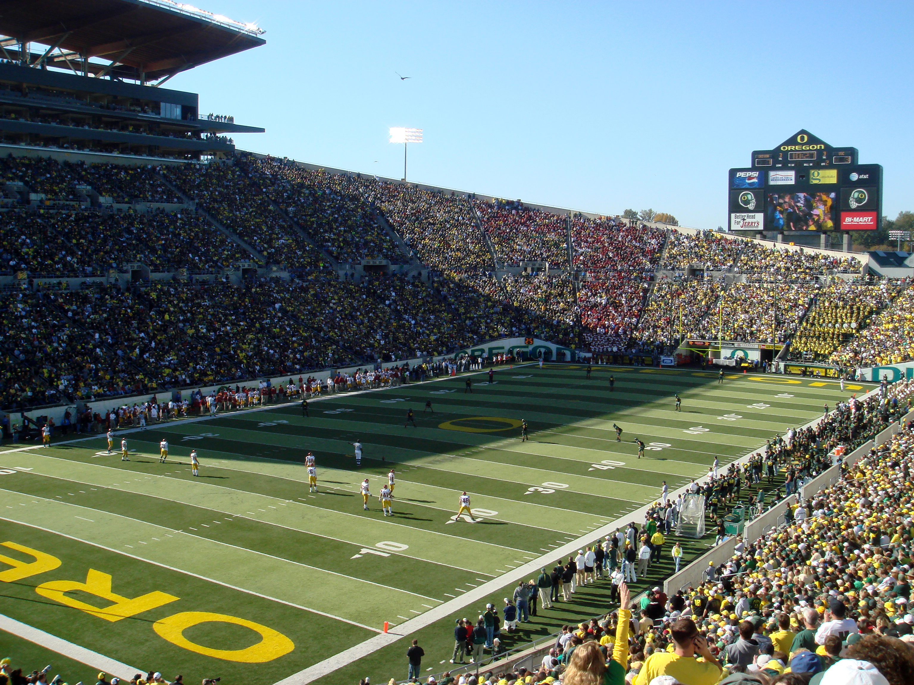 Autzen Stadium, home of the University of Oregon Ducks football, during the 2007 season game between the USC Trojans and the Ducks; it was the first time two top-10 teams had played at Autzen in its 41-year history and broke the stadium attendance record with 59,277. The Ducks, slightly favored, won the game: 24–17.